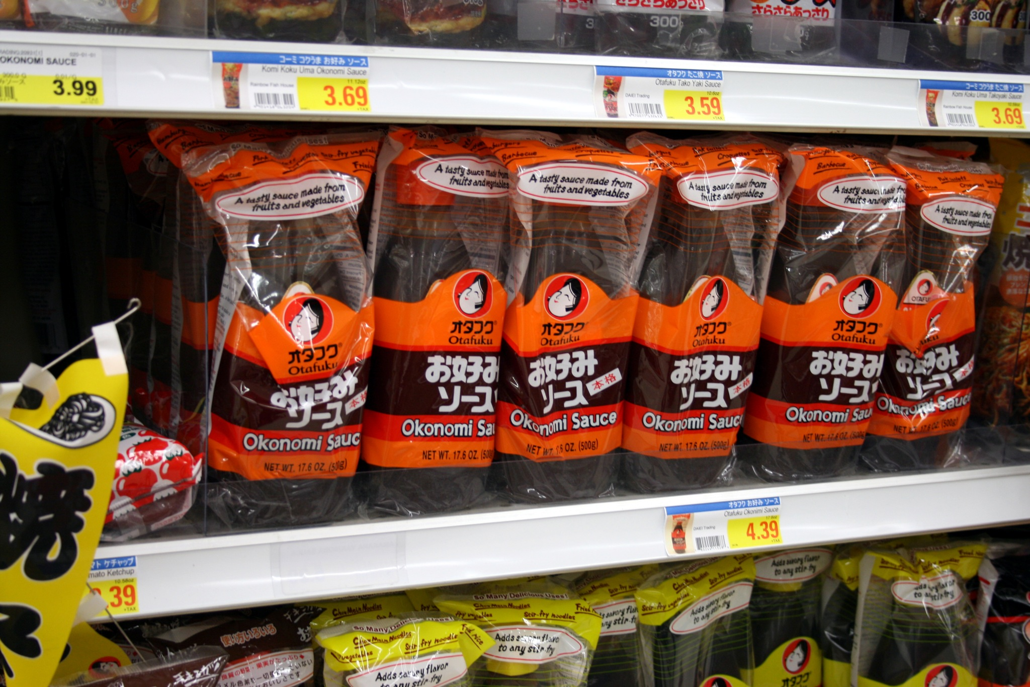 Mitsuwa Marketplace 100 E. Algonquin Road Arlington Heights オタフクソース[2]のお好みソース